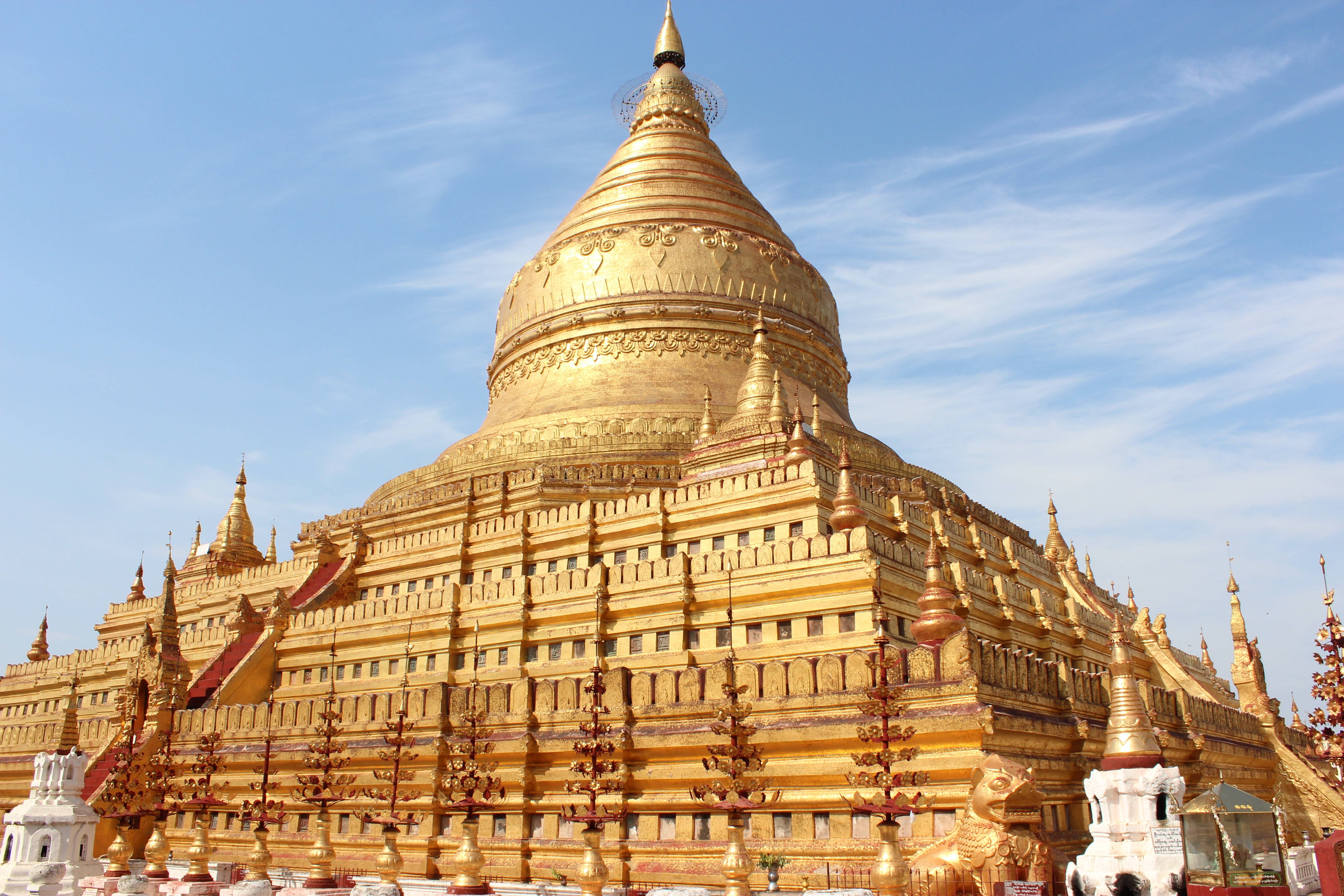 Shwezigon Pagoda, Nyaung-U, Myanmar